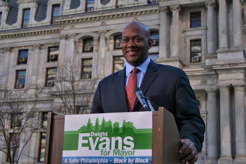 Dwight Evans at a rally outside City Hall